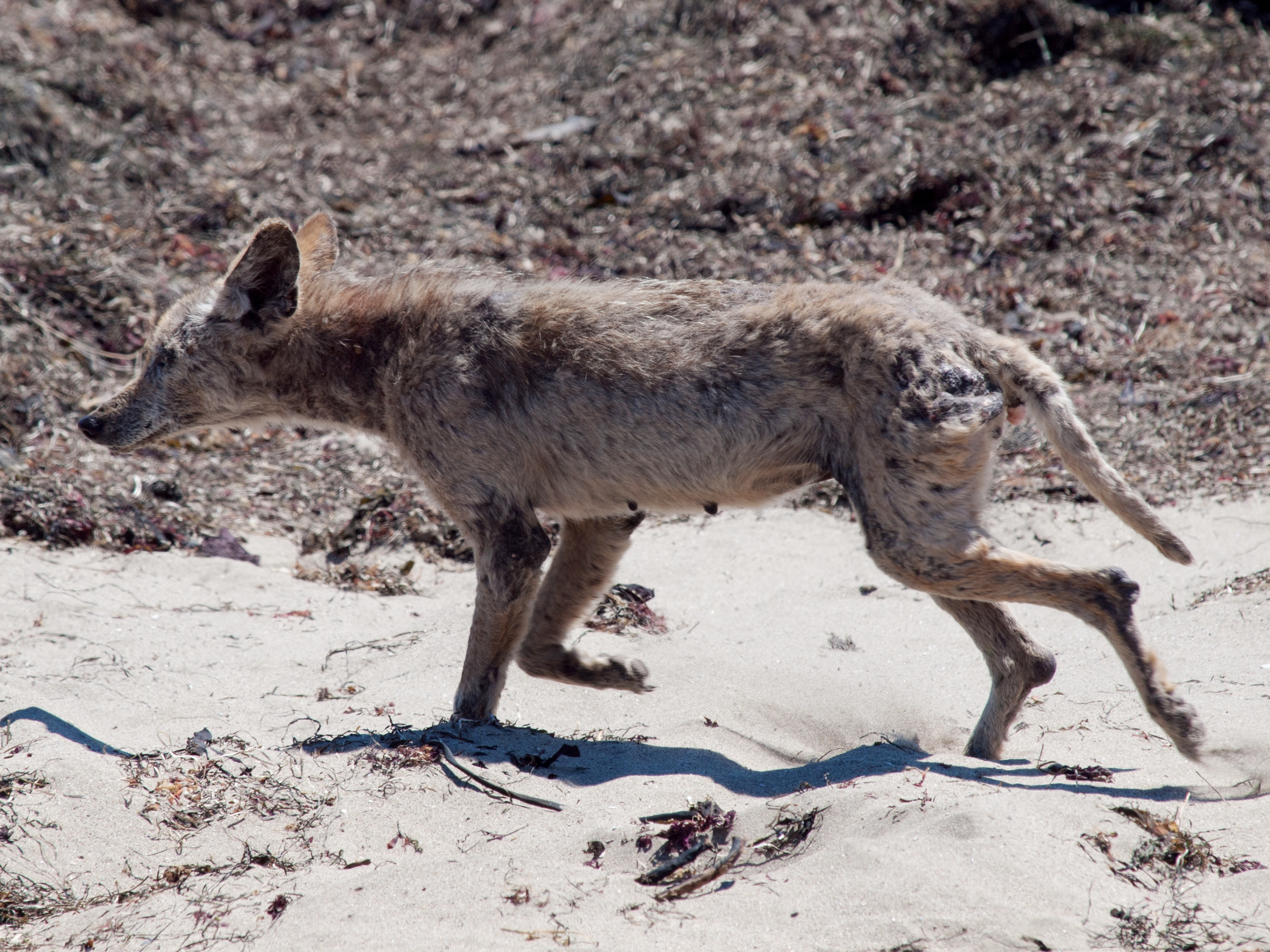 Mangy coyote in Año Nuevo State Park, CA